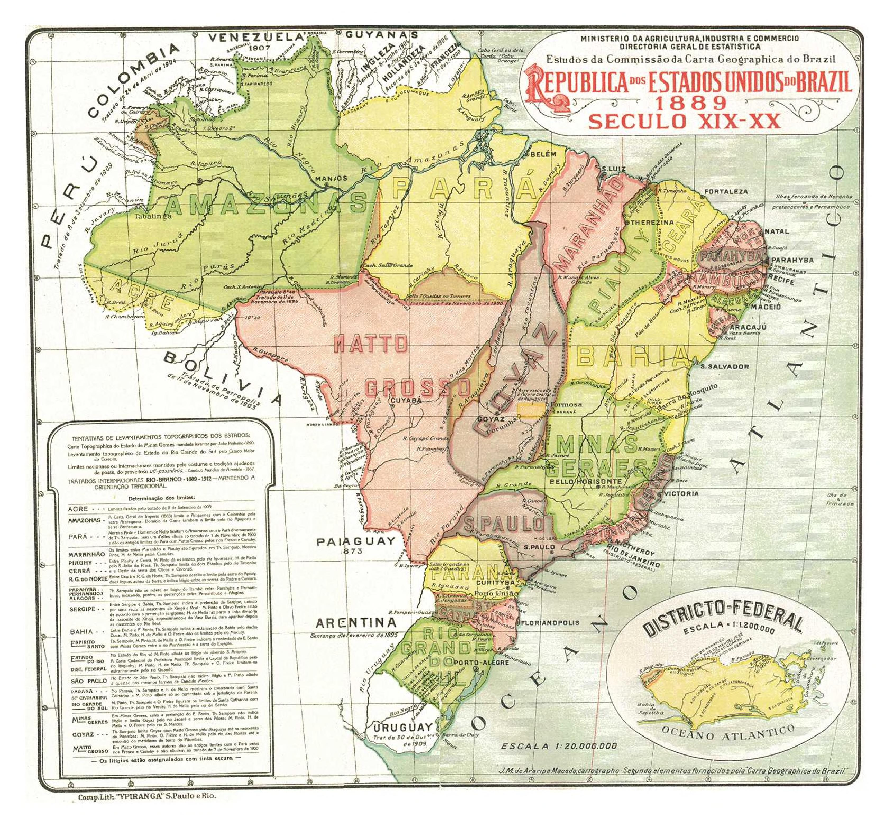 Republic of the United States of Brazil, 1889.